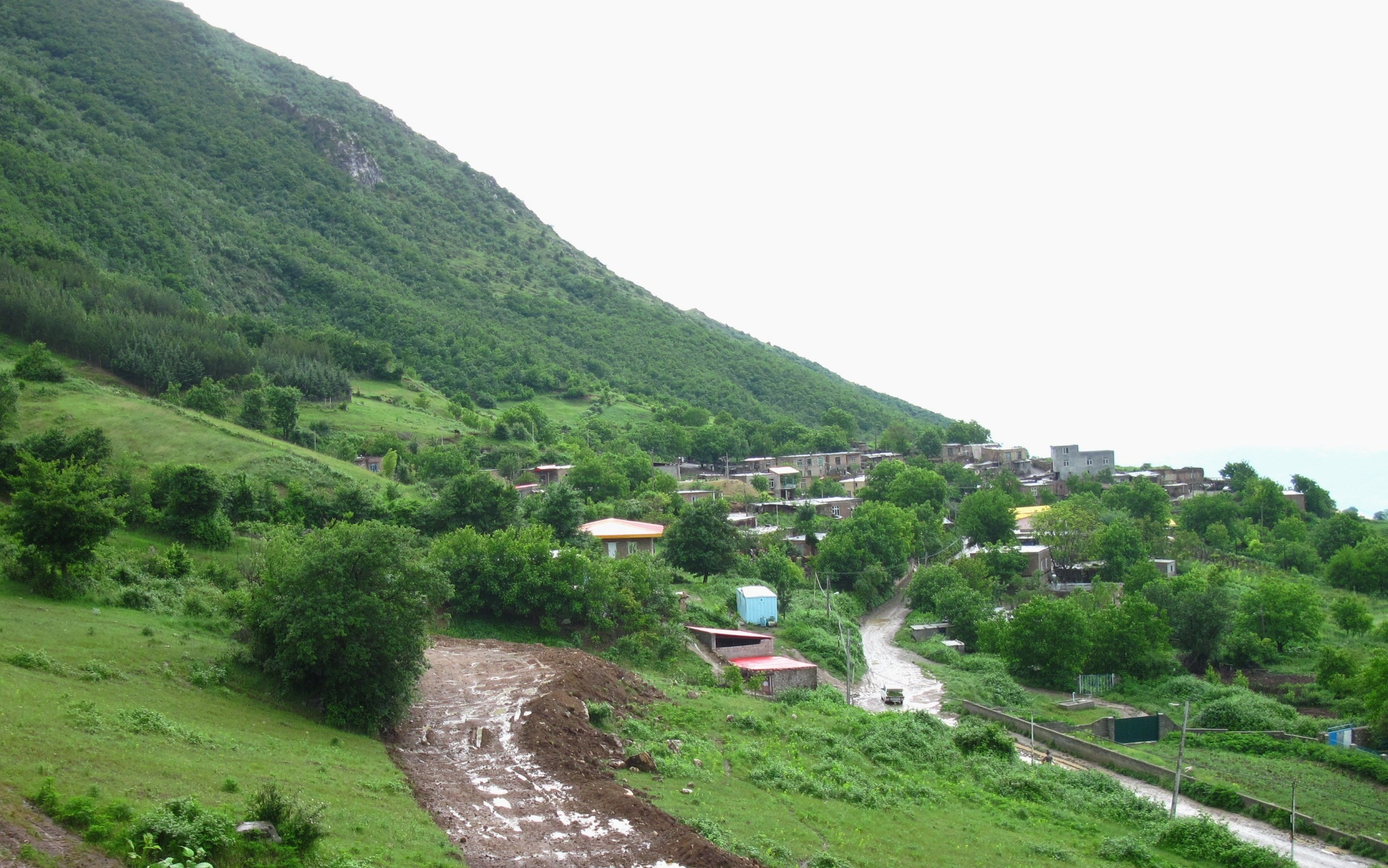 For Kalaleh Wiki page.